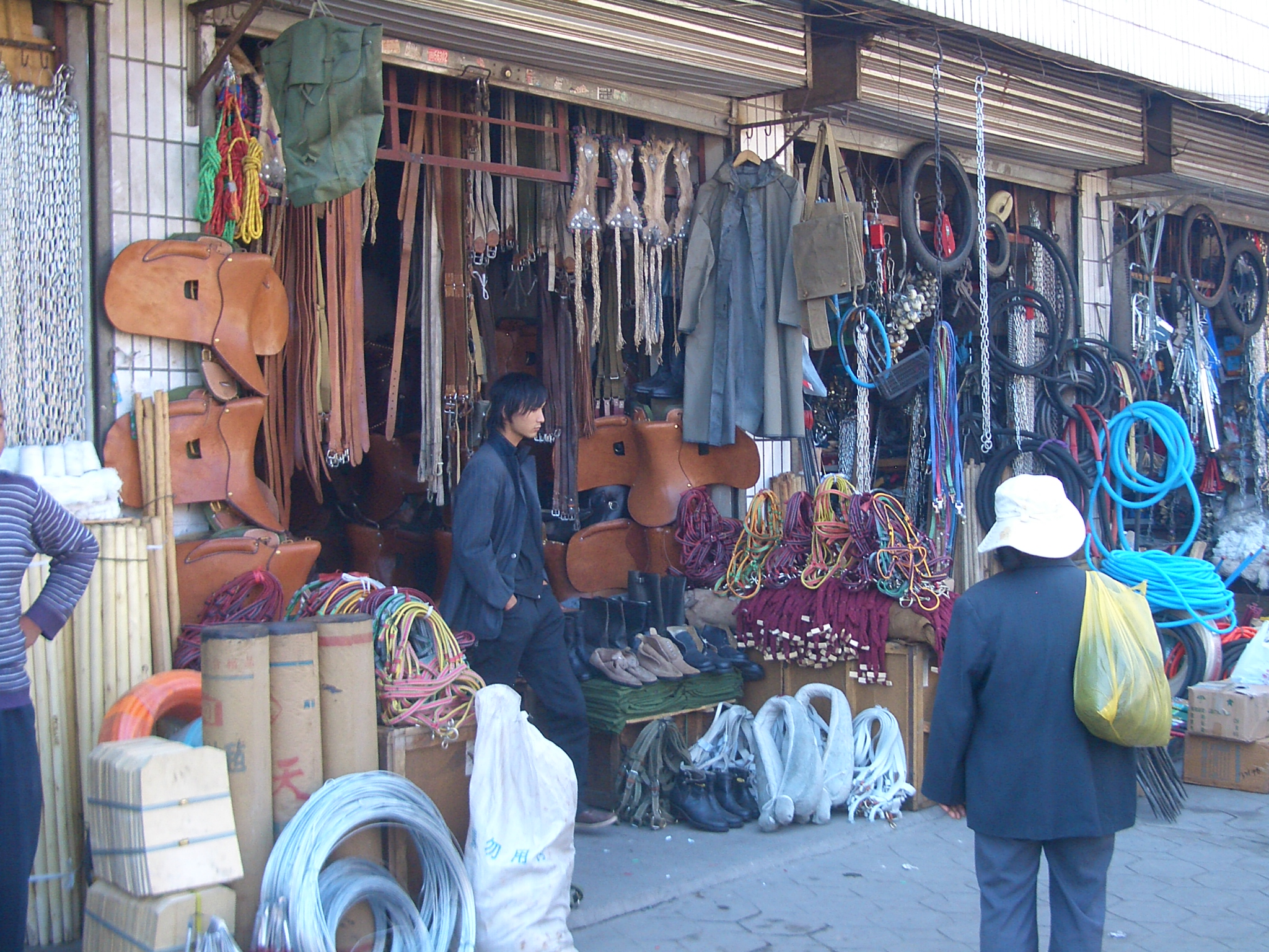 Street scenes in Qianheyan Lu, a busy market street in the southern part of Linxia City